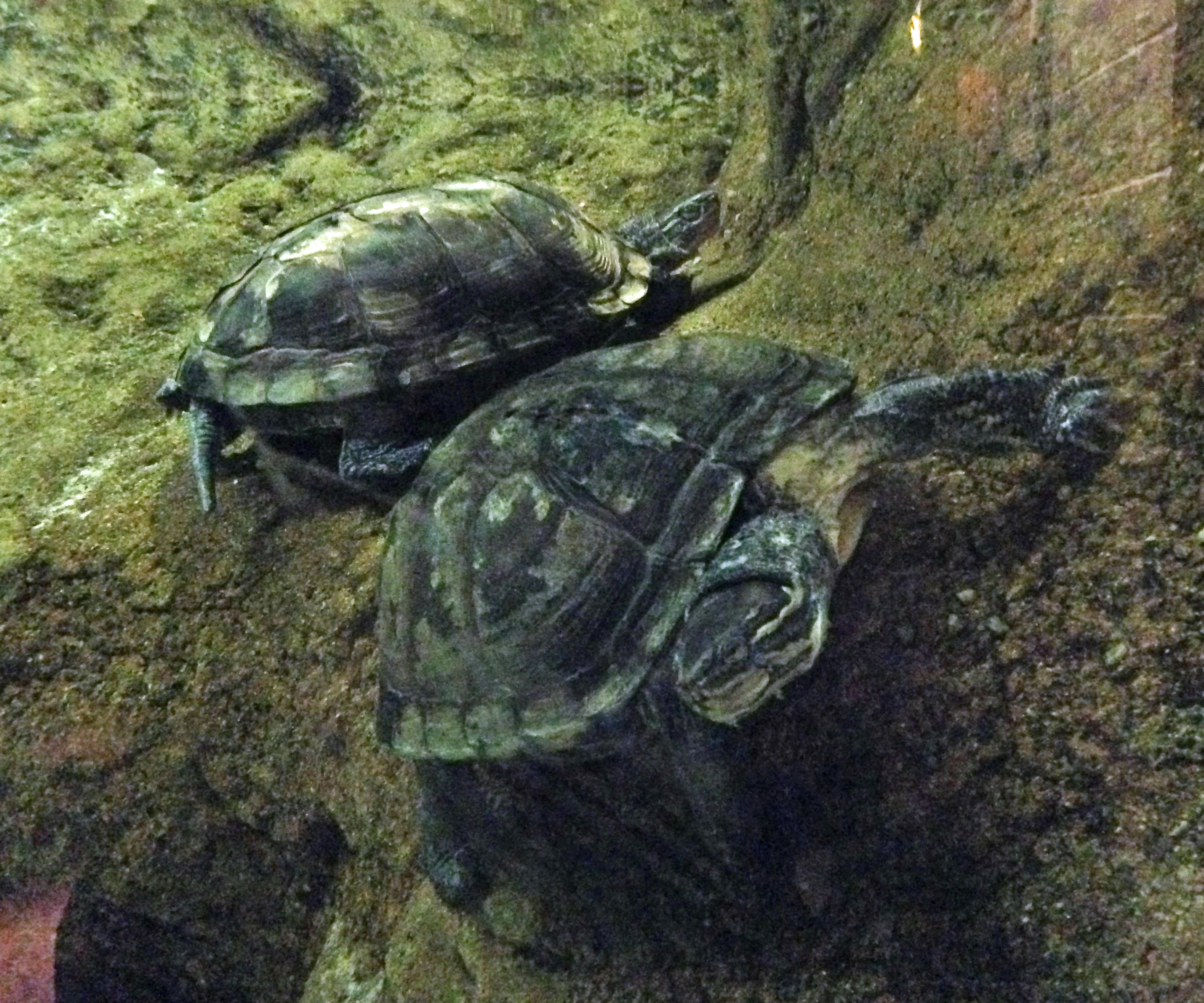 Mauremys annamensis at the Columbus Zoo in Columbus, Ohio